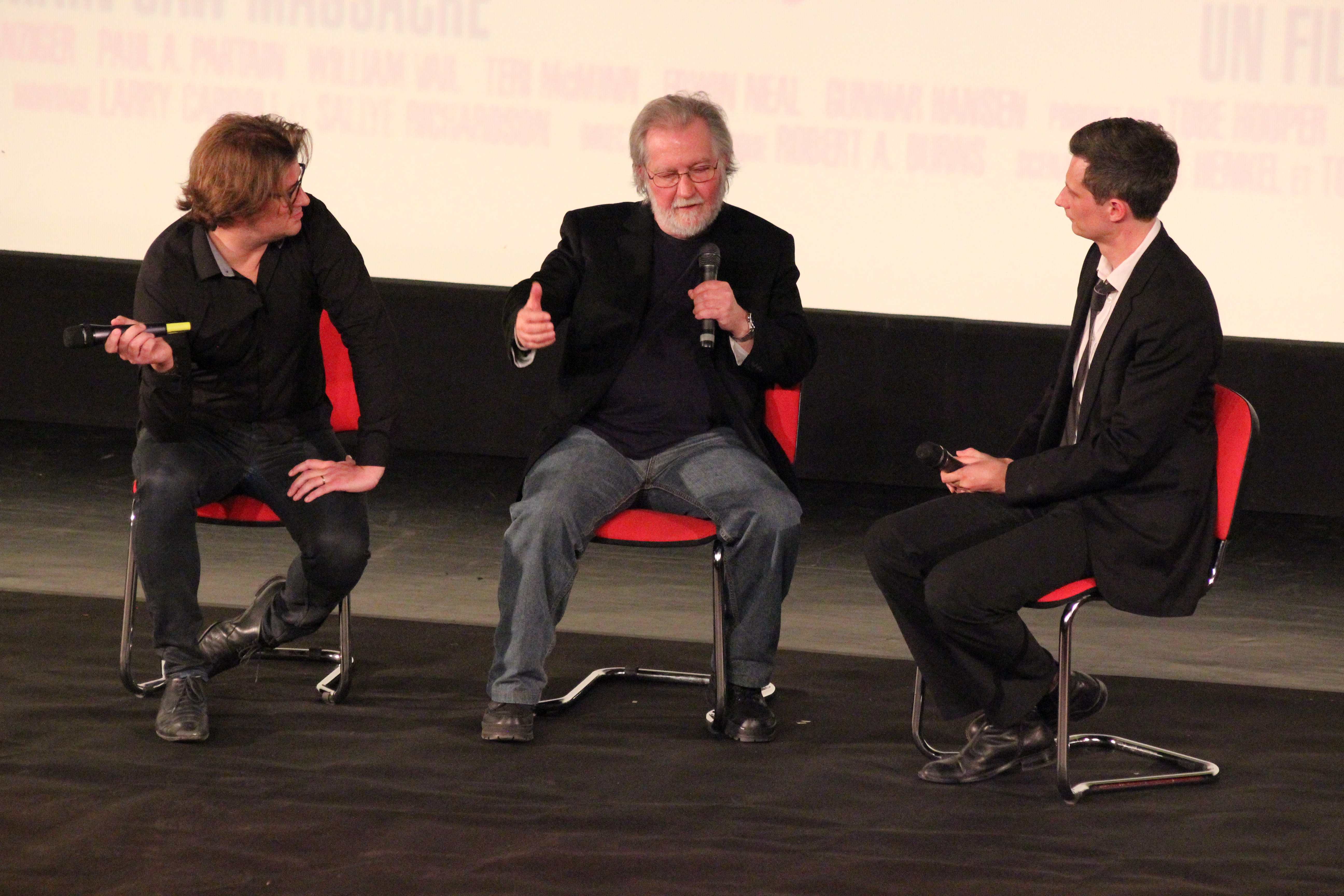 The Texas Chainsaw Massacre - 40th anniversary of the film - event at the Grand Rex September 23, 2014 in Paris, France. Object location48° 52′ 13.52″ N, 2° 20′ 51.16″ E